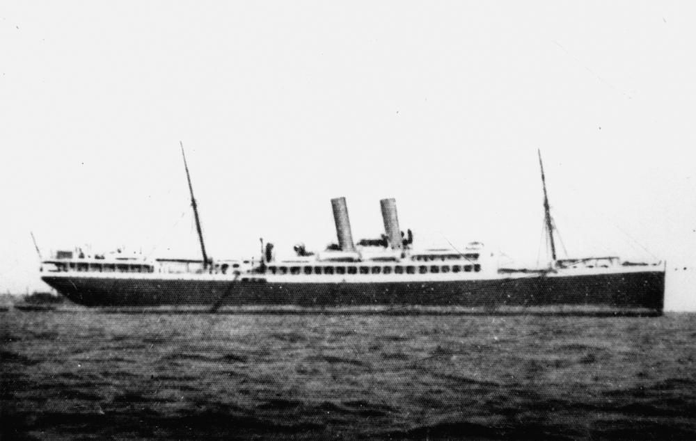 Prinz Ludwig (ship) Built 1906. Captured by British in World War I. 1919 acquired by Orient line and renamed Orcades. 1925 Broken up. (Description supplied with photograph.).